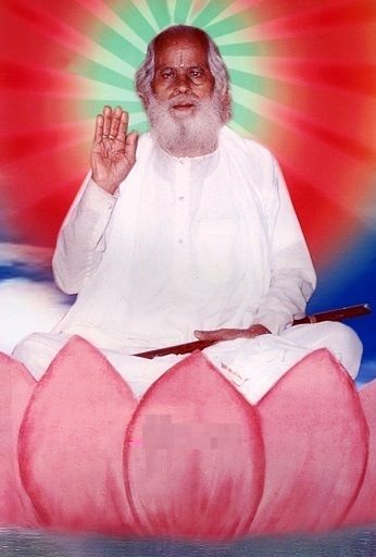 Brahma abadhuta Thakur dayanidhi Paramahansa dev